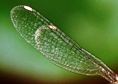 Chalcolestes viridis - wing detail